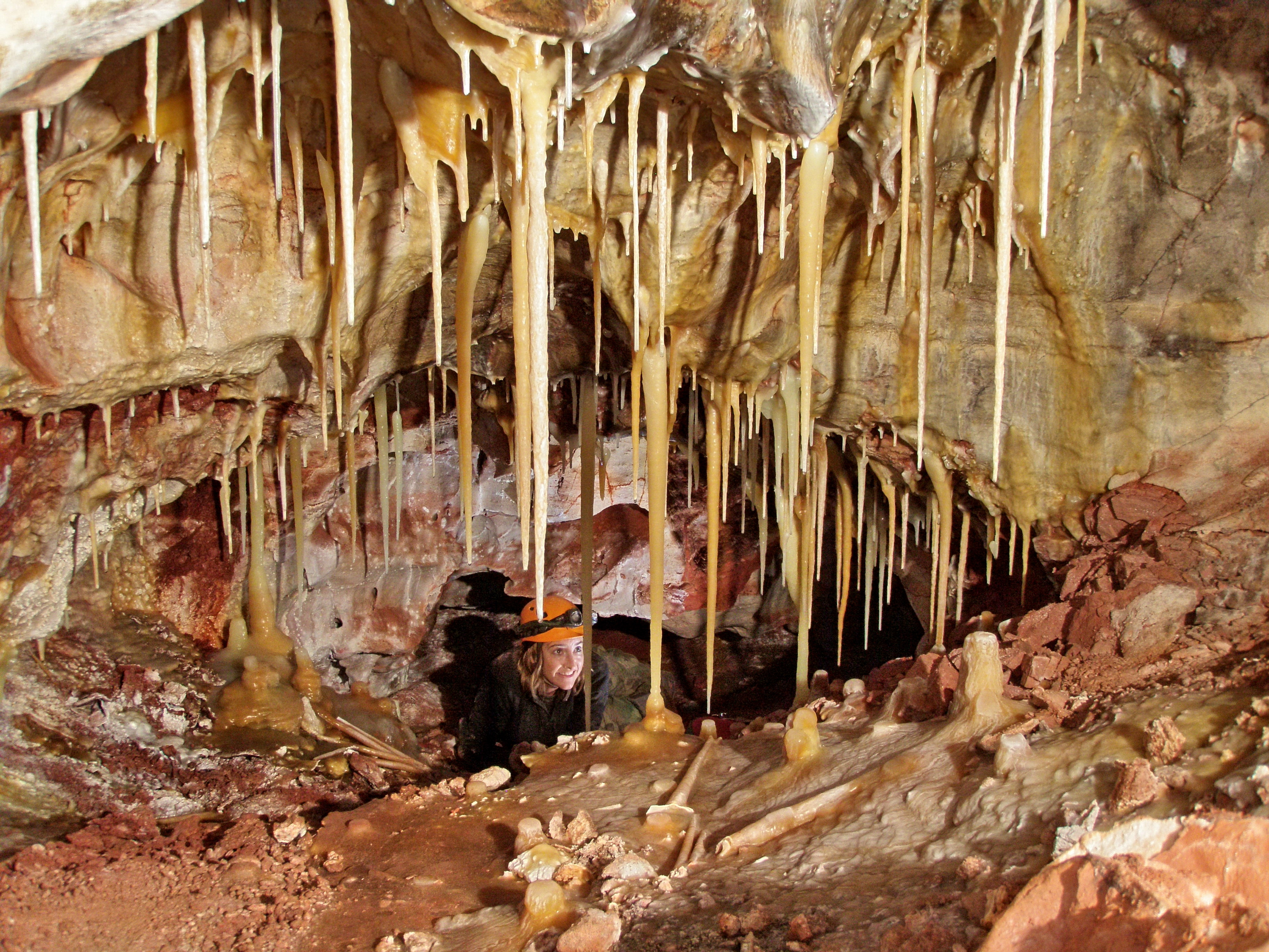 Stalactites are rare in Wind Cave.